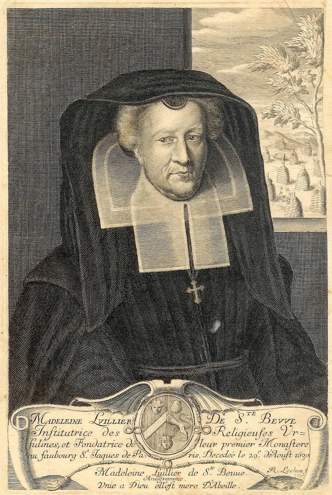 Posthumer Kupferstich der Madeleine Lhullier de Sainte Beuve von René Lochon, datiert 1673